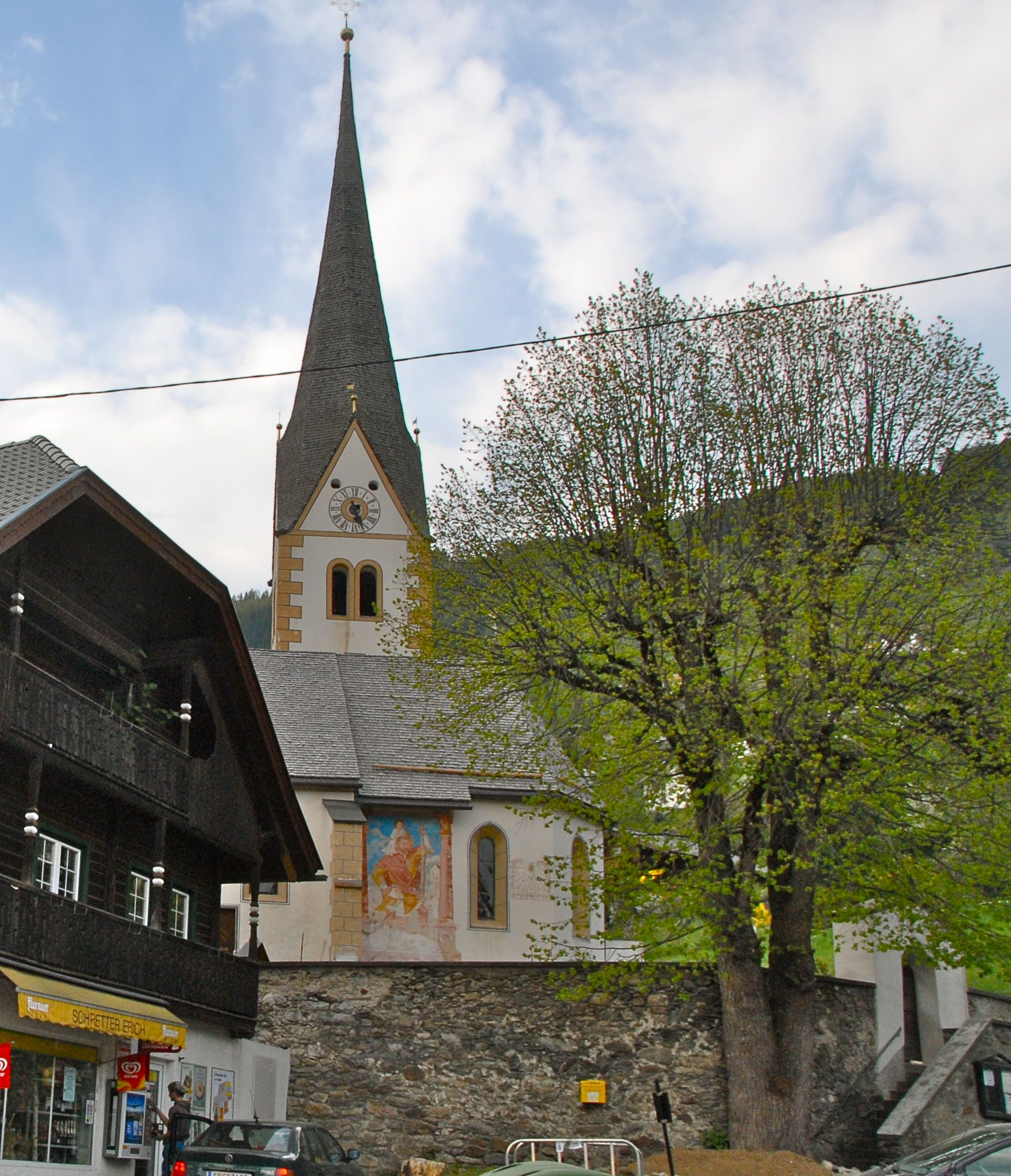 Catholic parish church Holy John the Baptist and cemetery, municipality Radenthein, district Spittal an der Drau, Kärnten / Österreich / EU